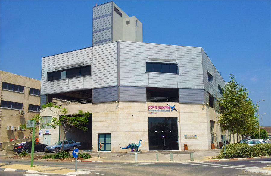 mediatech hi-tech building